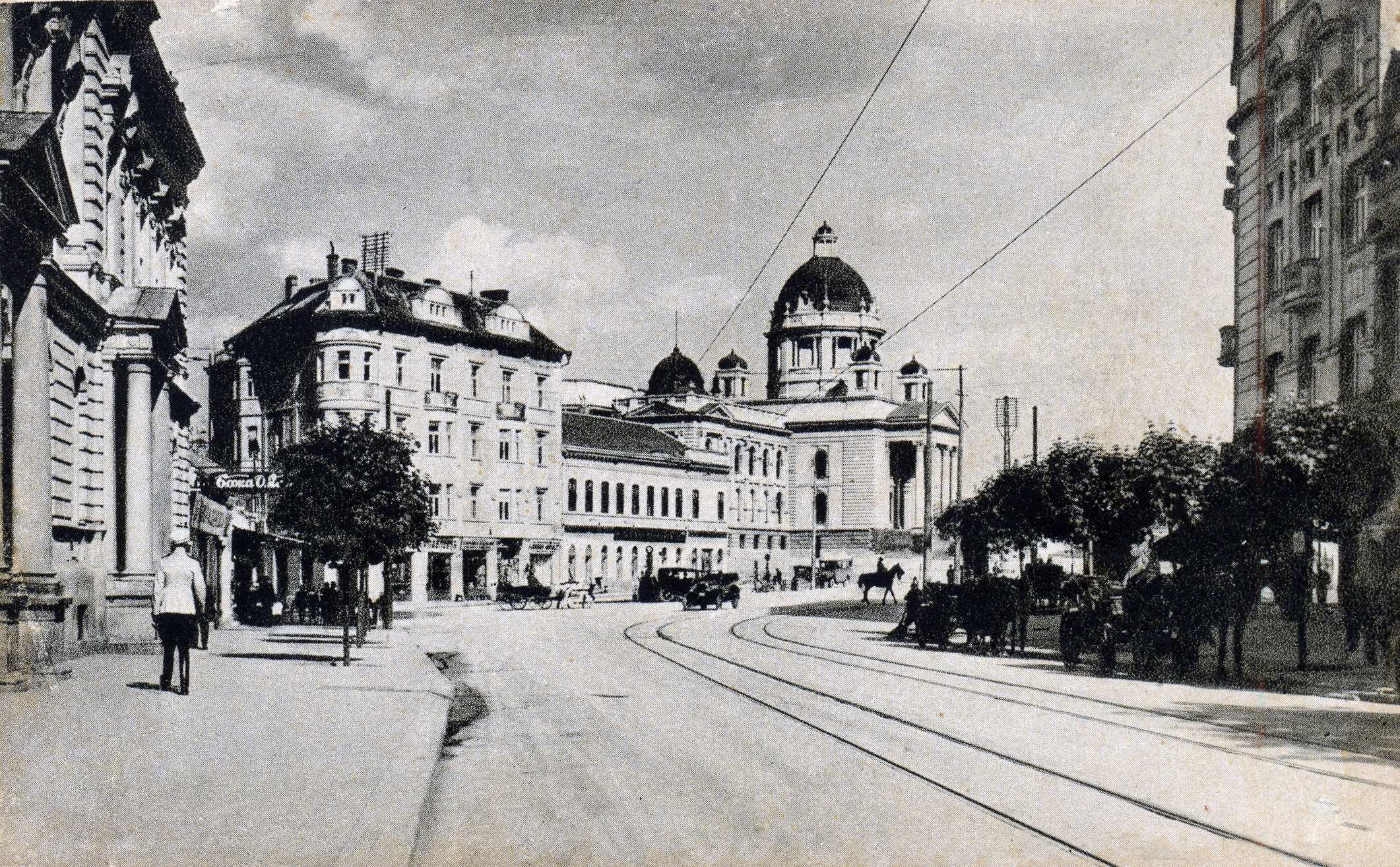 Old phtograph of the Belgrade, the capital of Serbia